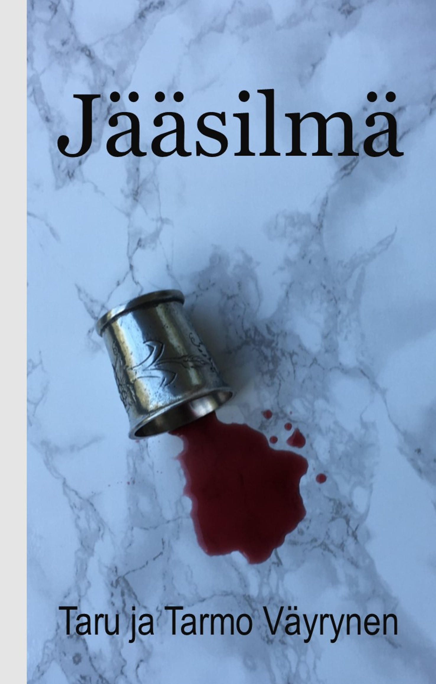 Jääsilmä